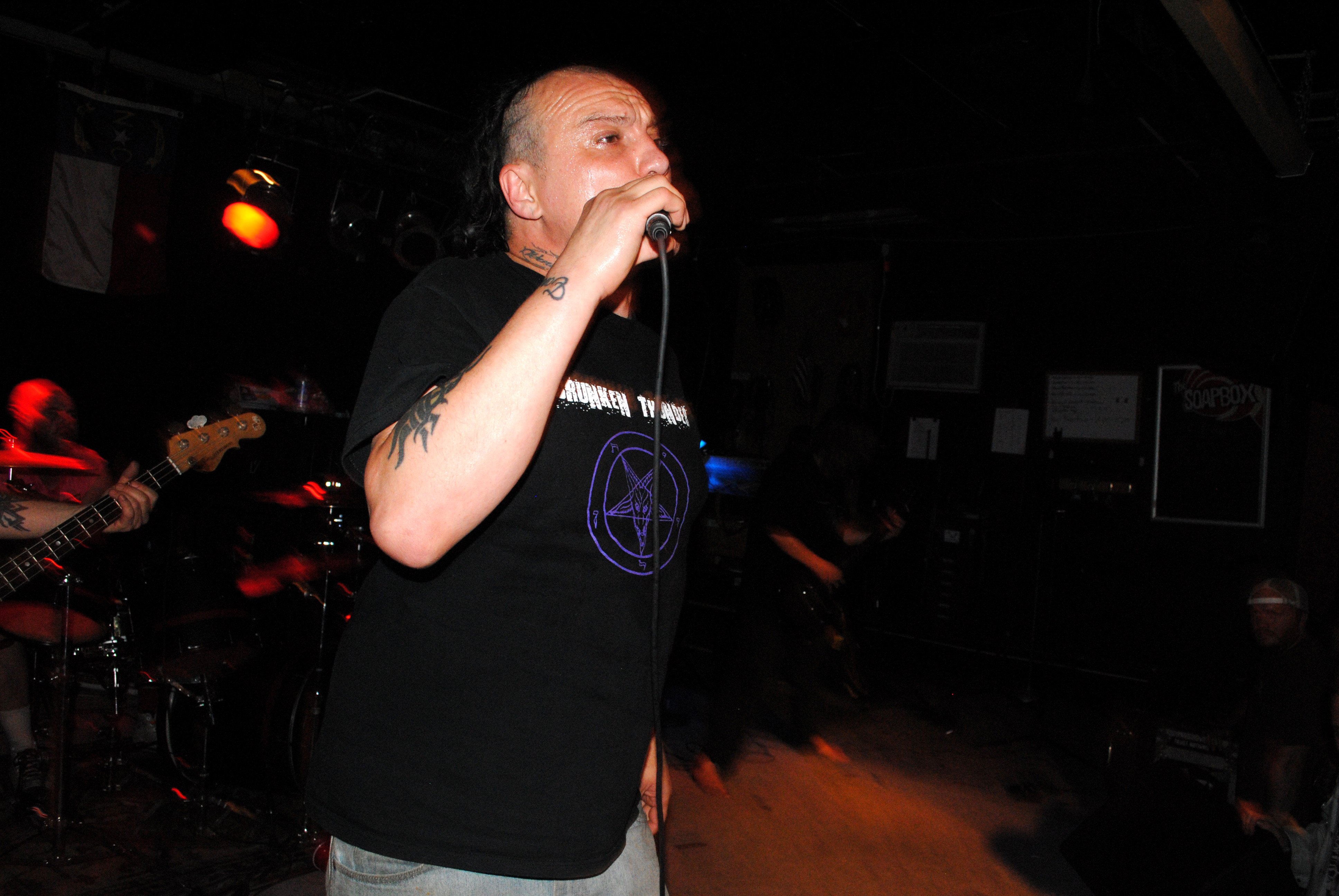 Published on